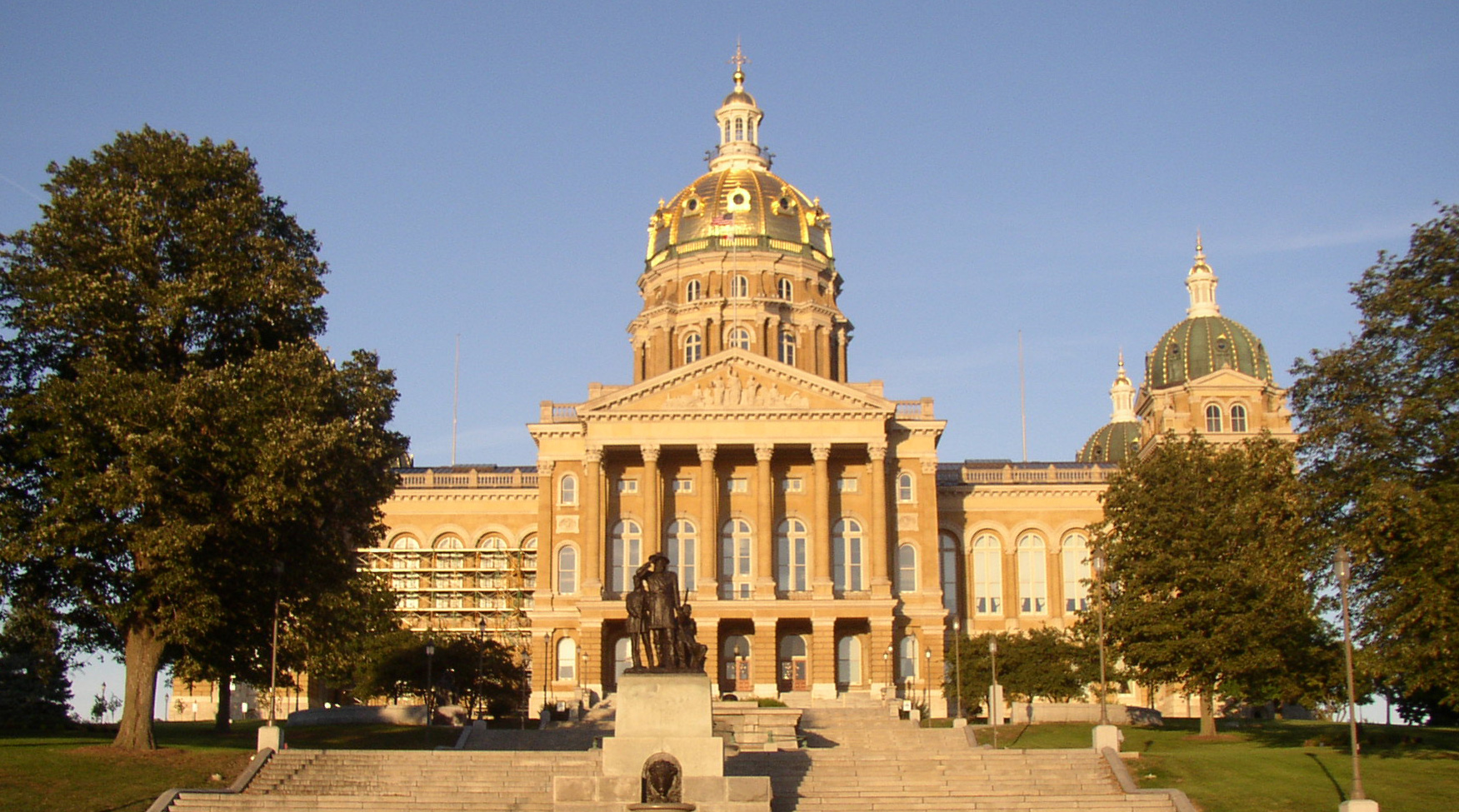 The State Capitol of Iowa, featuring its golden dome.